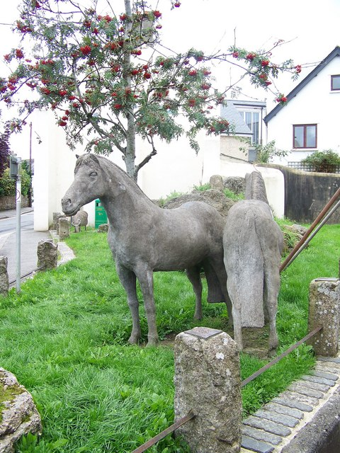 Dartmoor Ponies, Pound Street, Moretonhampstead Part of the Community Arts project in Pound Street.